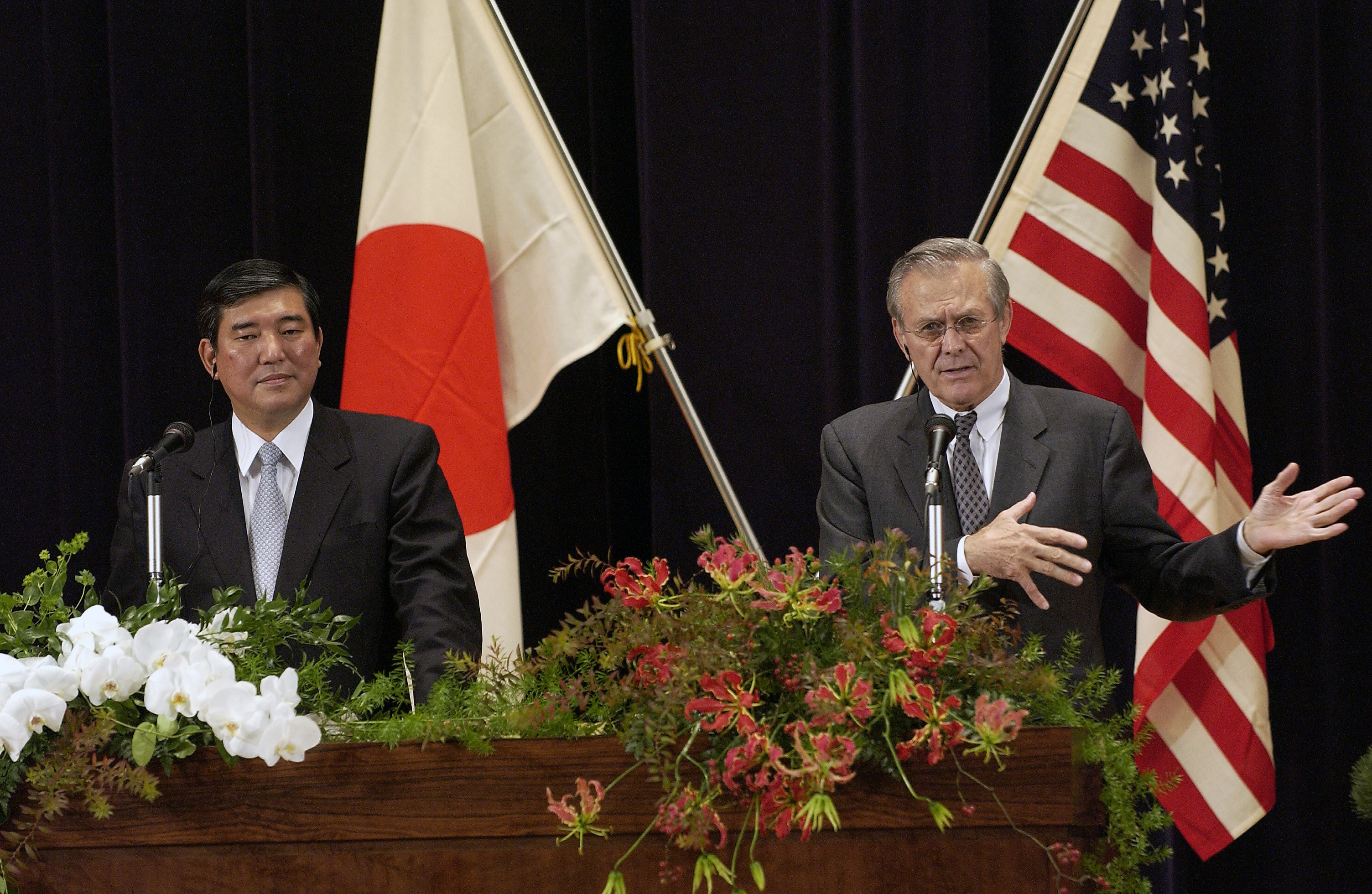 US Defense Secretary Donald Rumsfeld meets Japanes Defense Secretary Shigeru Ishiba at the Japanese Defense Agency in Tokyo, Japan.